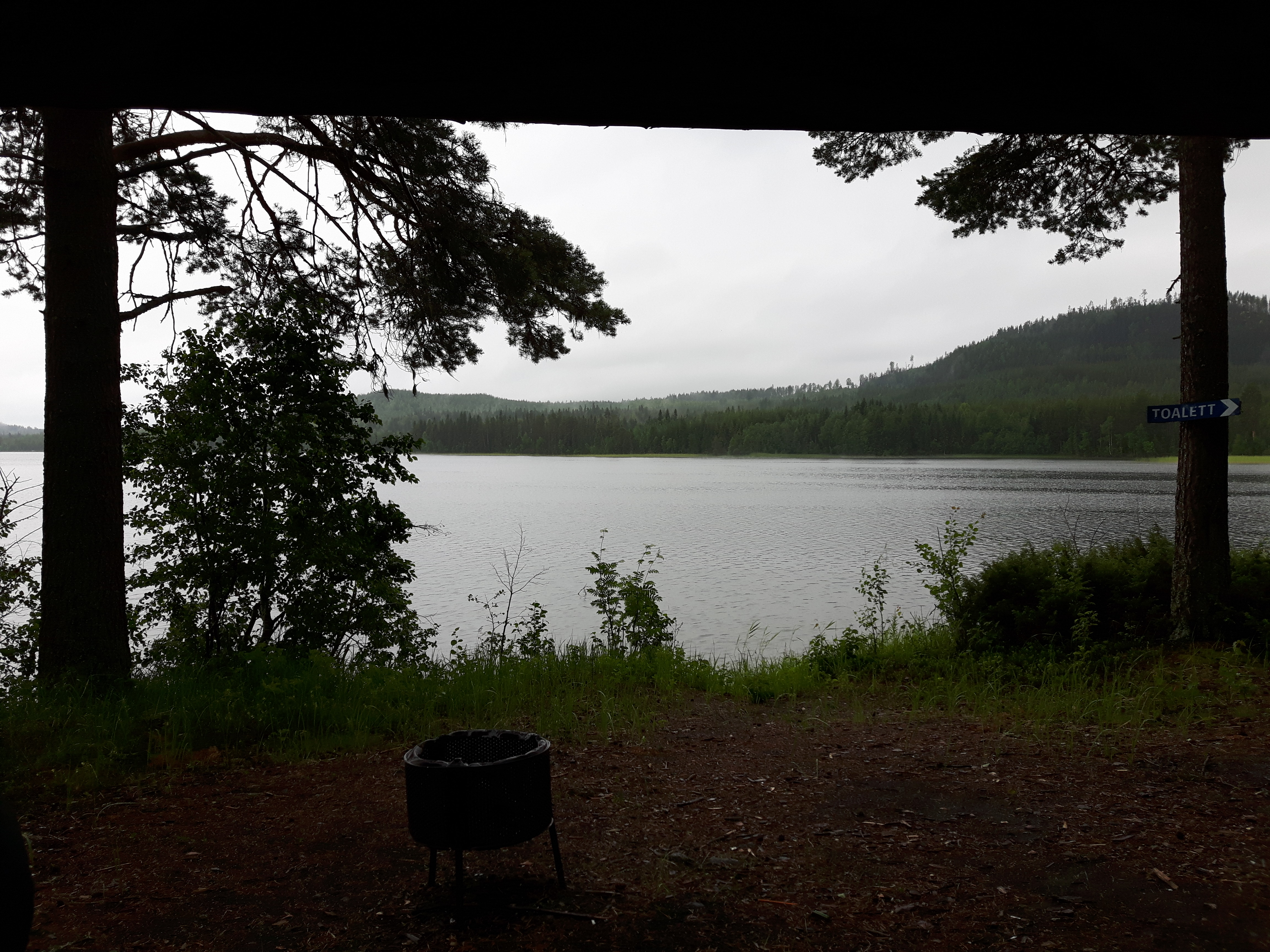 campsite with shelter and suitable ground for tents